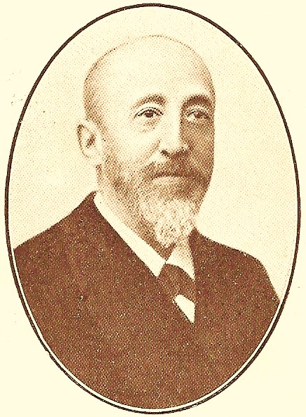 Jules Claretie